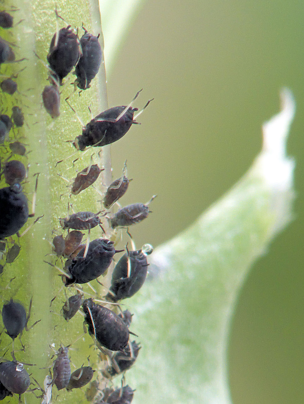 Aphis fabae at Vicia faba